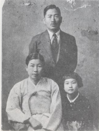 Chang Taek-sang's Family, in 1940